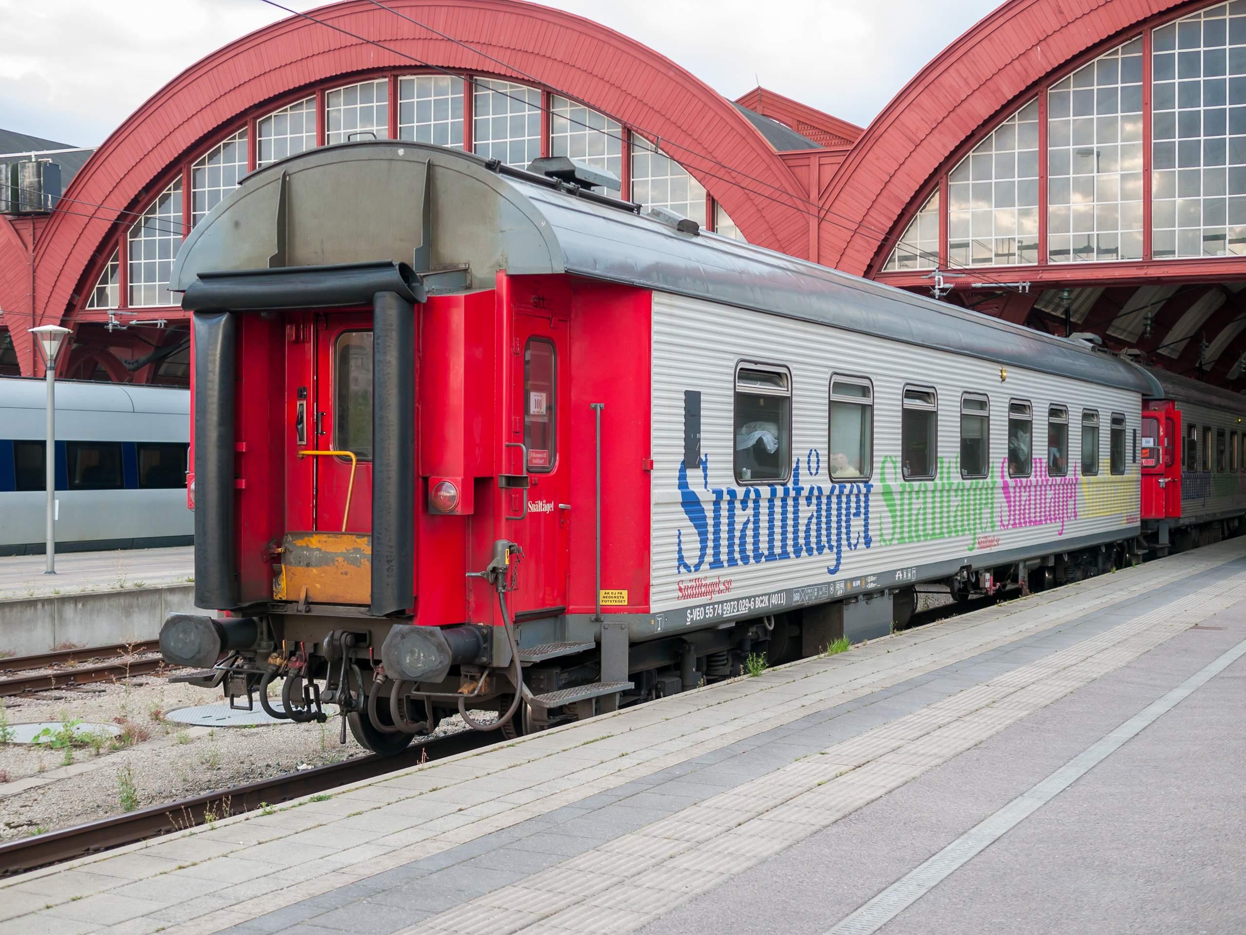 Snälltåget, Malmö